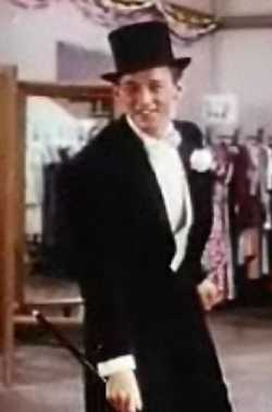 Cropped screenshot of Bobby Van from the trailer for the film Small Town Girl.